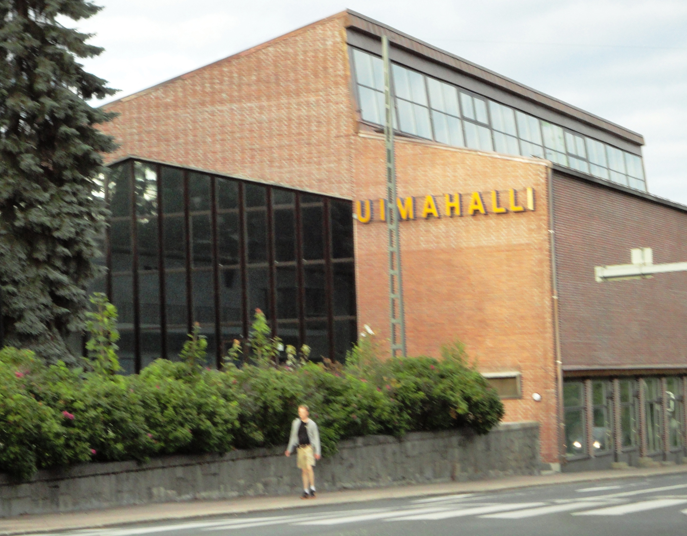 Pyynikki swimming hall in Tampere, Finland, was designed by architect Harry W. Schreck and completed in 1956.